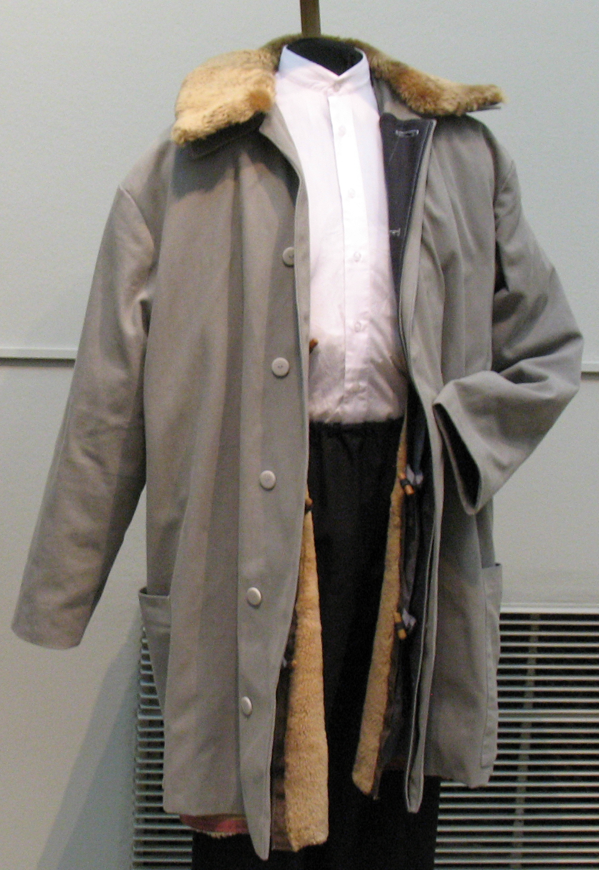 State Tretyakov Gallery, Moscow, Russian Federation (costumes of 1923-24)